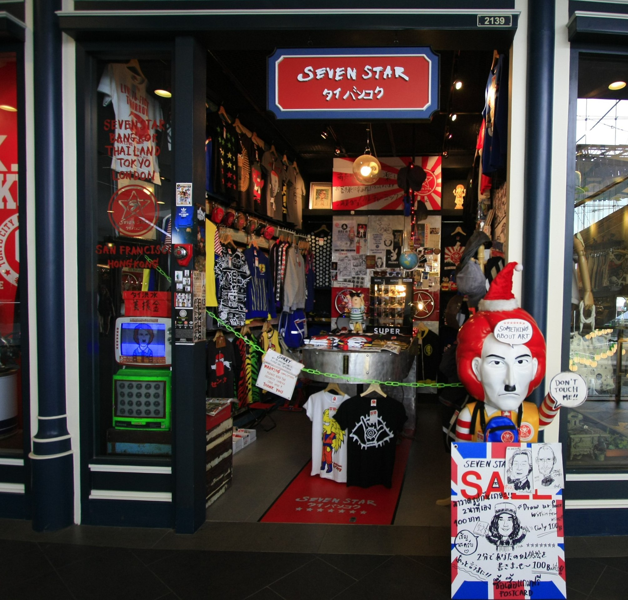 Ronald McDonald disguised as Hitler. Godwin's law is reached.